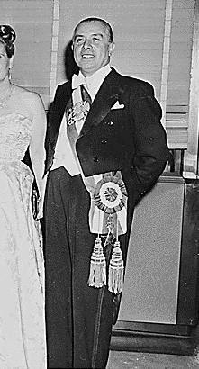 Gabriel González Videla, President of Chile, during a visit during a visit to President Truman at the White House, 04/14/1950